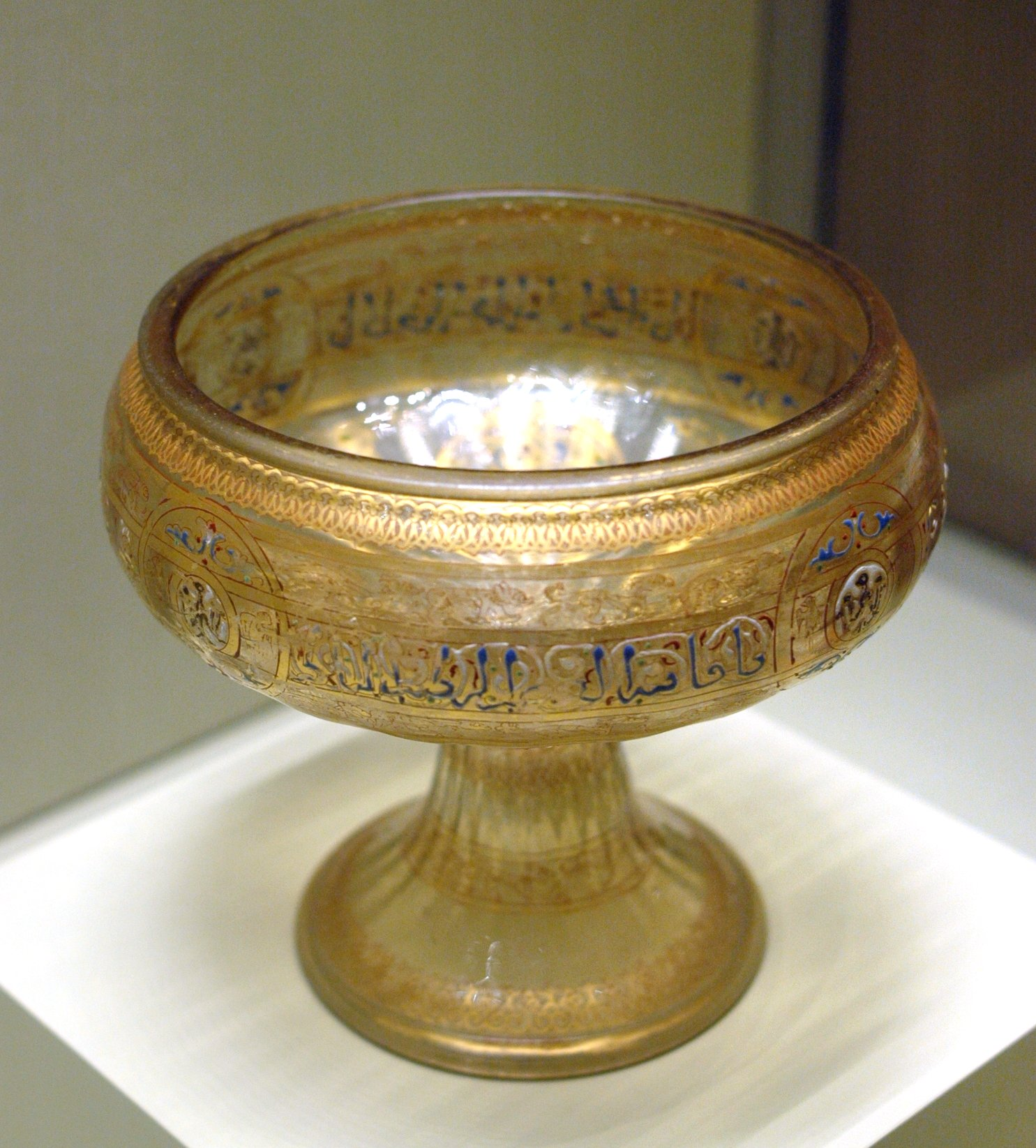 Orned with an inscription and figural friezes of muscicians, drinkers and animals. Presence of a blazon with an eagle.